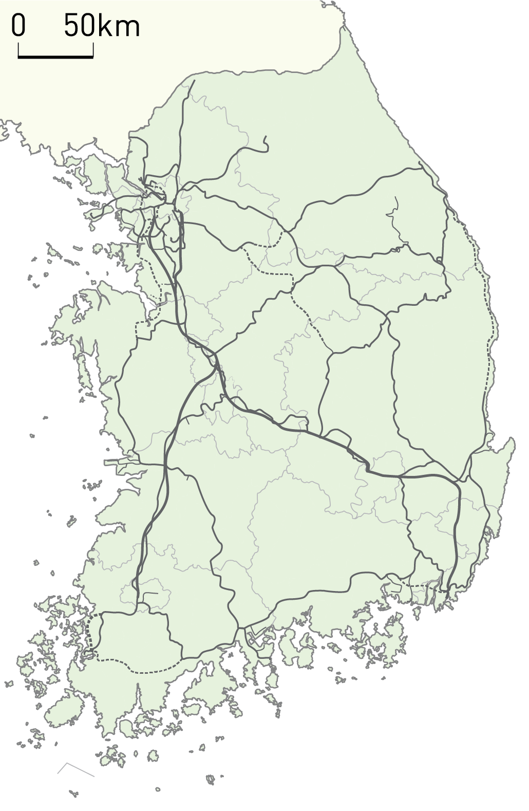 Route Map of Korail(Formally Korean National Railway)